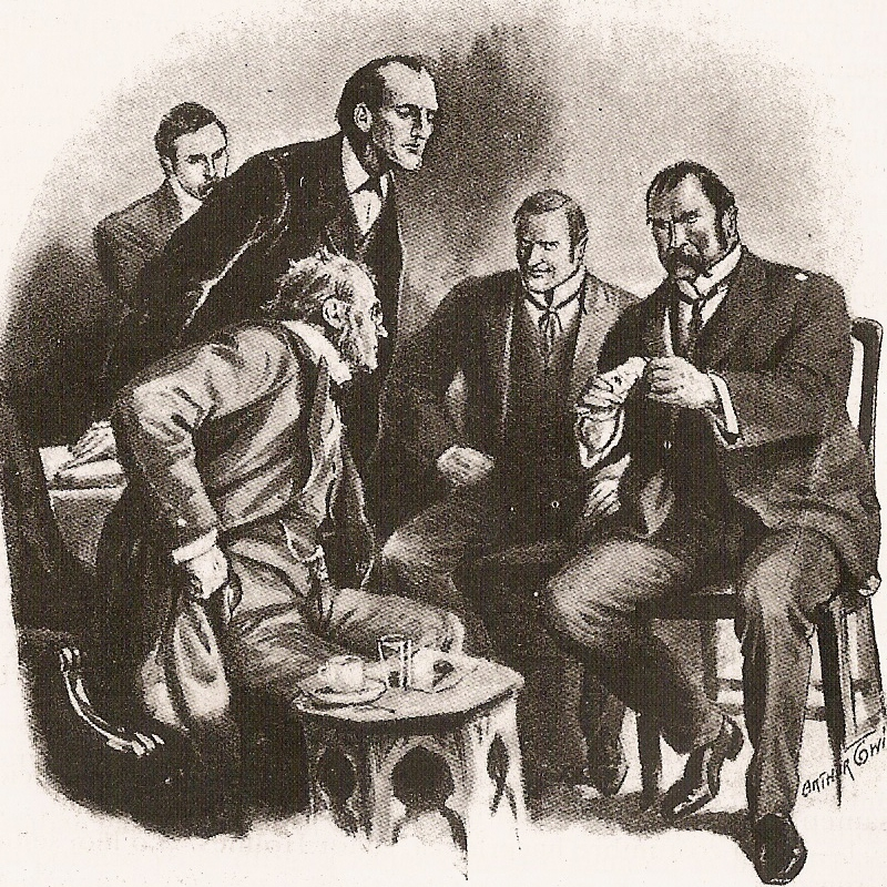 Sherlock Holmes in "The Adventure of Wisteria Lodge."